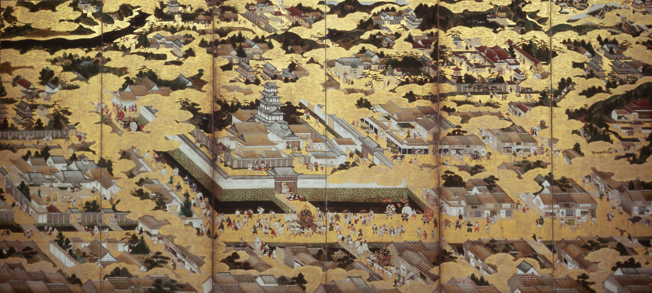 Scenes in and around the Capital, Shokoji, Takaoka, Toyama, Japan